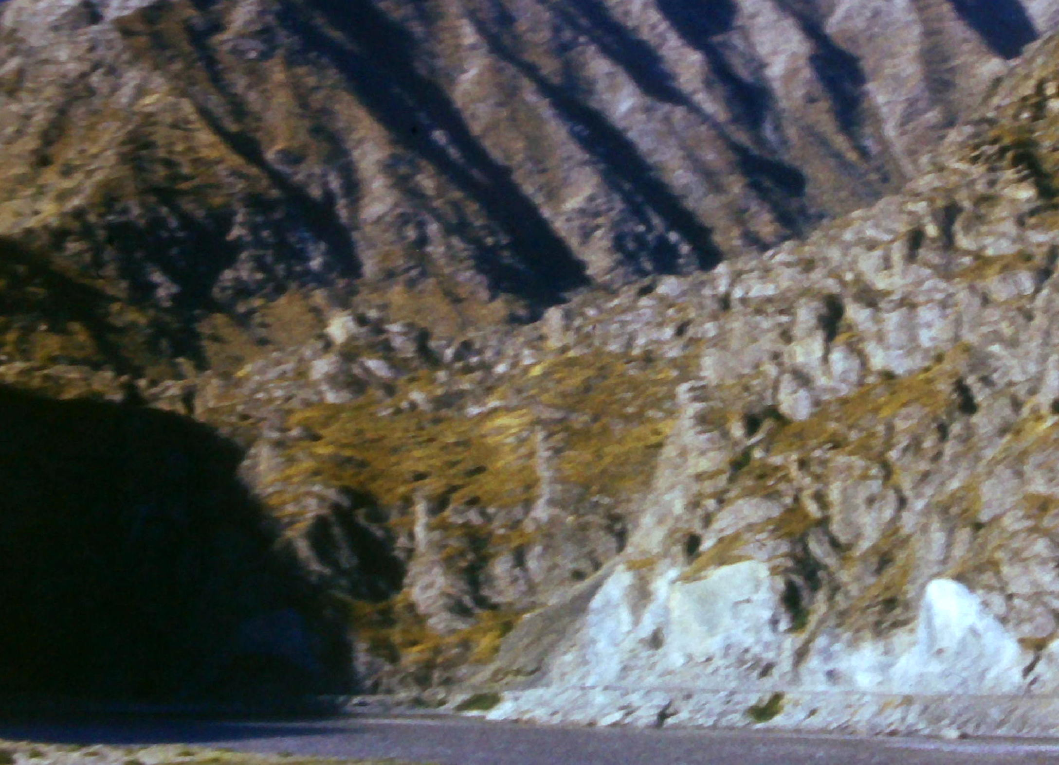 Pamyr highway near Kizil-Art